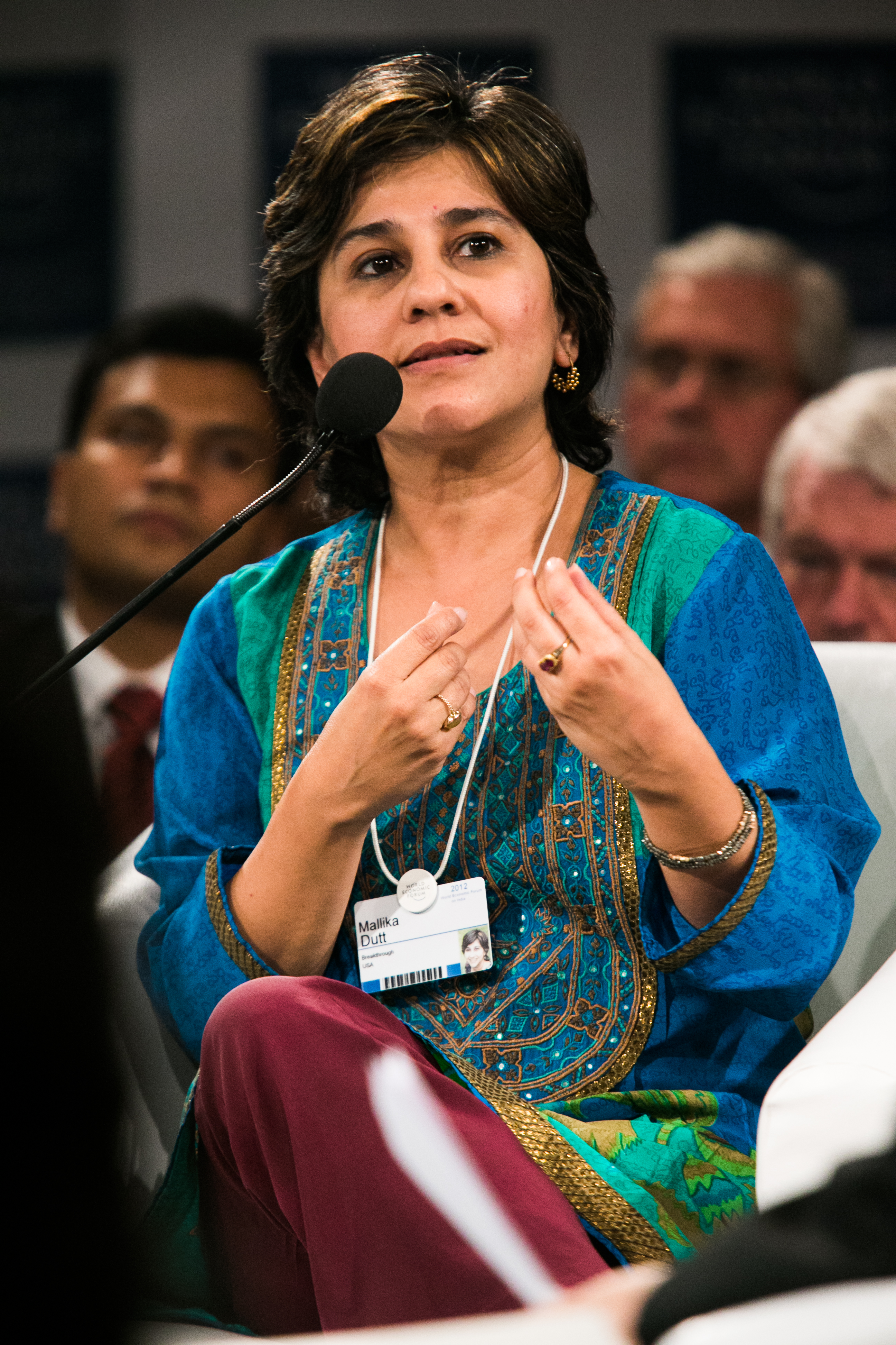 Mallika Dutt, President and Chief Executive Officer, Breakthrough, USA at the World Economic Forum on India 2012